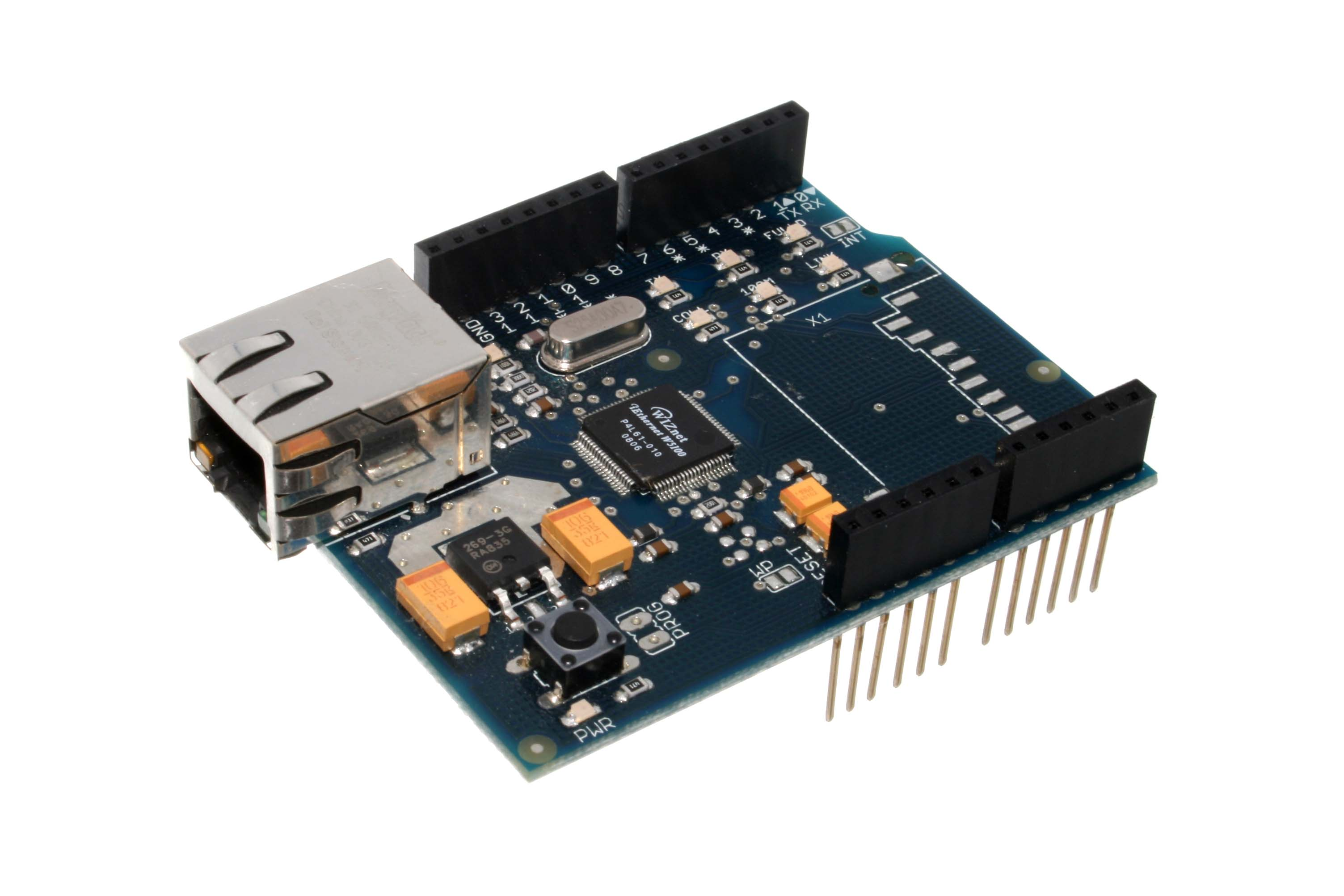 Arduino Ethernet shield.